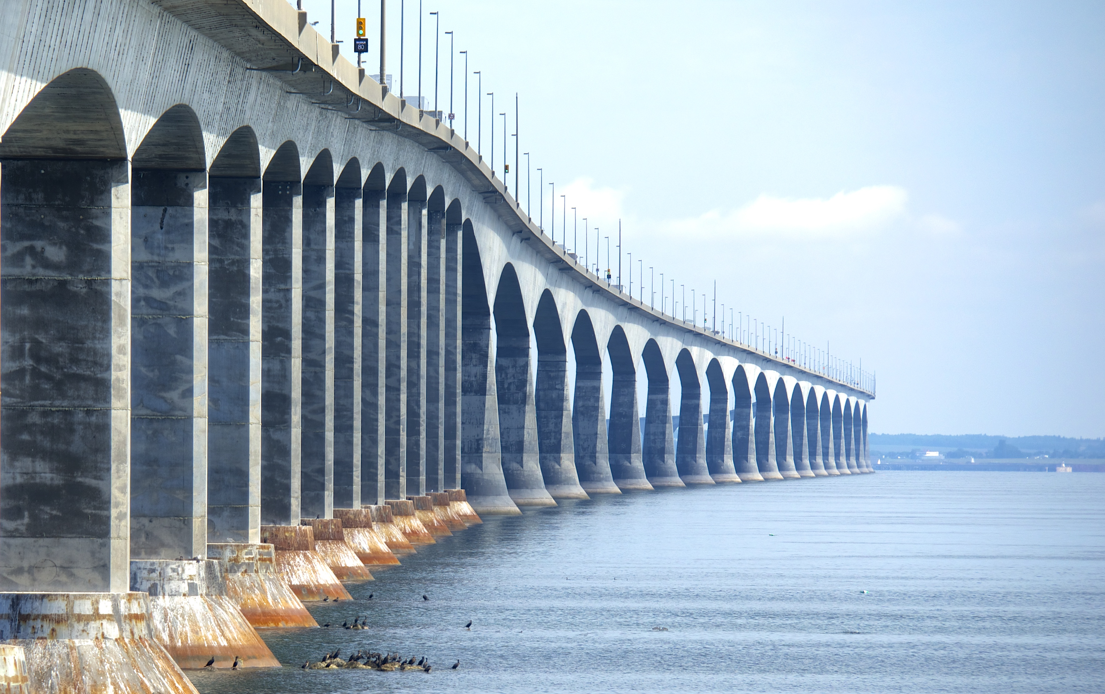 Bridging the gap between New Brunswick and Prince Edward Island, the bridge is the longest in the world over ice covered waters. The hoof shapes at the base of the pylons are especially designed to break sheets of ice, when tides and currents shove them into the bridge. The pylons are not in a straight line. Designers thought the bridge was sufficiently long that it was necessary to have a slight waviness in the route -- to keep drivers alert. Walls of the bridge were designed to be too tall to prevent sightseeing, to keep drivers from becoming distracted.